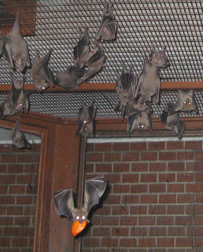 Colony of Egyptian fruit bats in the Budapest Zoo